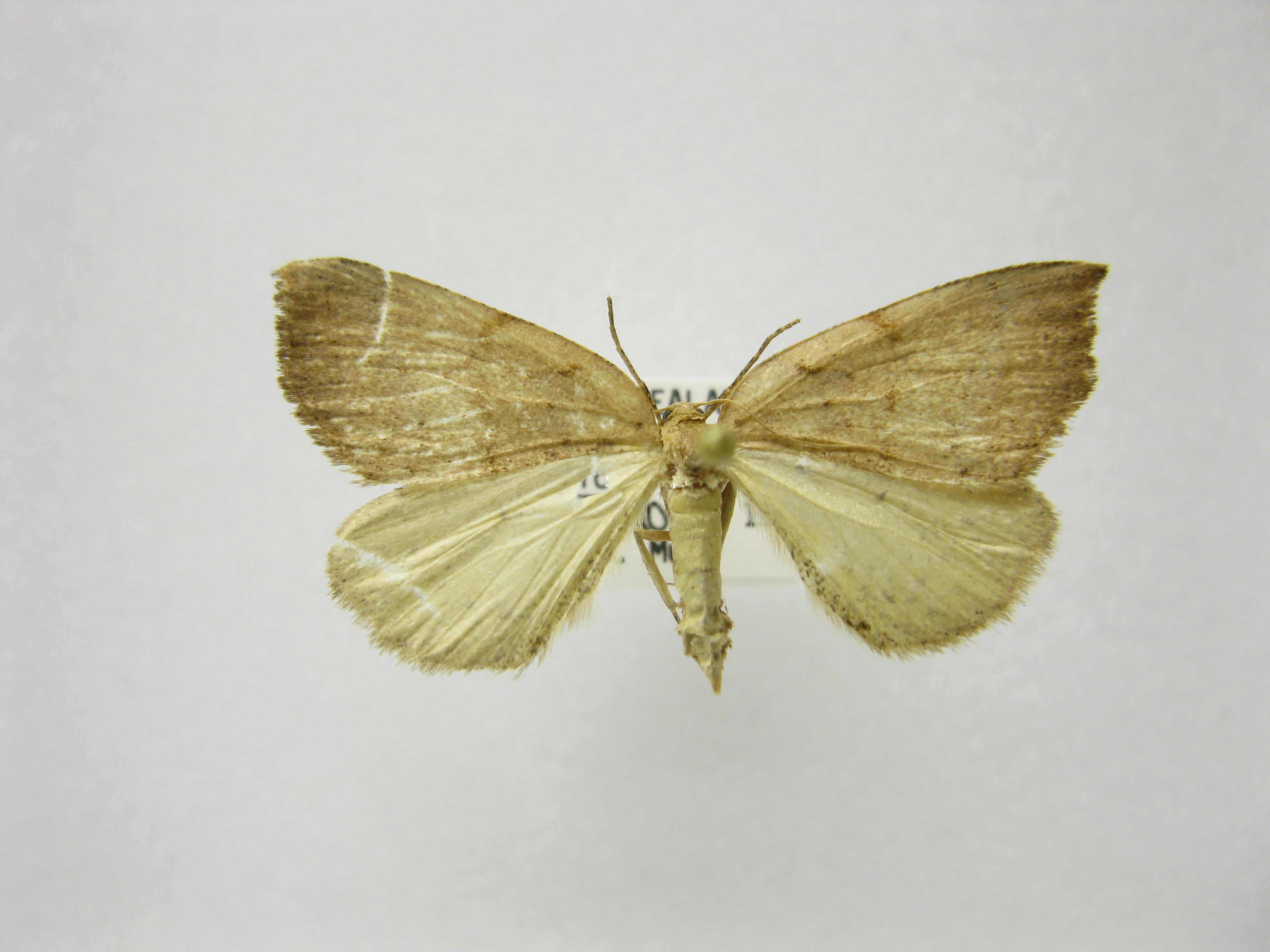 Specimen from Lincoln University Entomology Research Museum